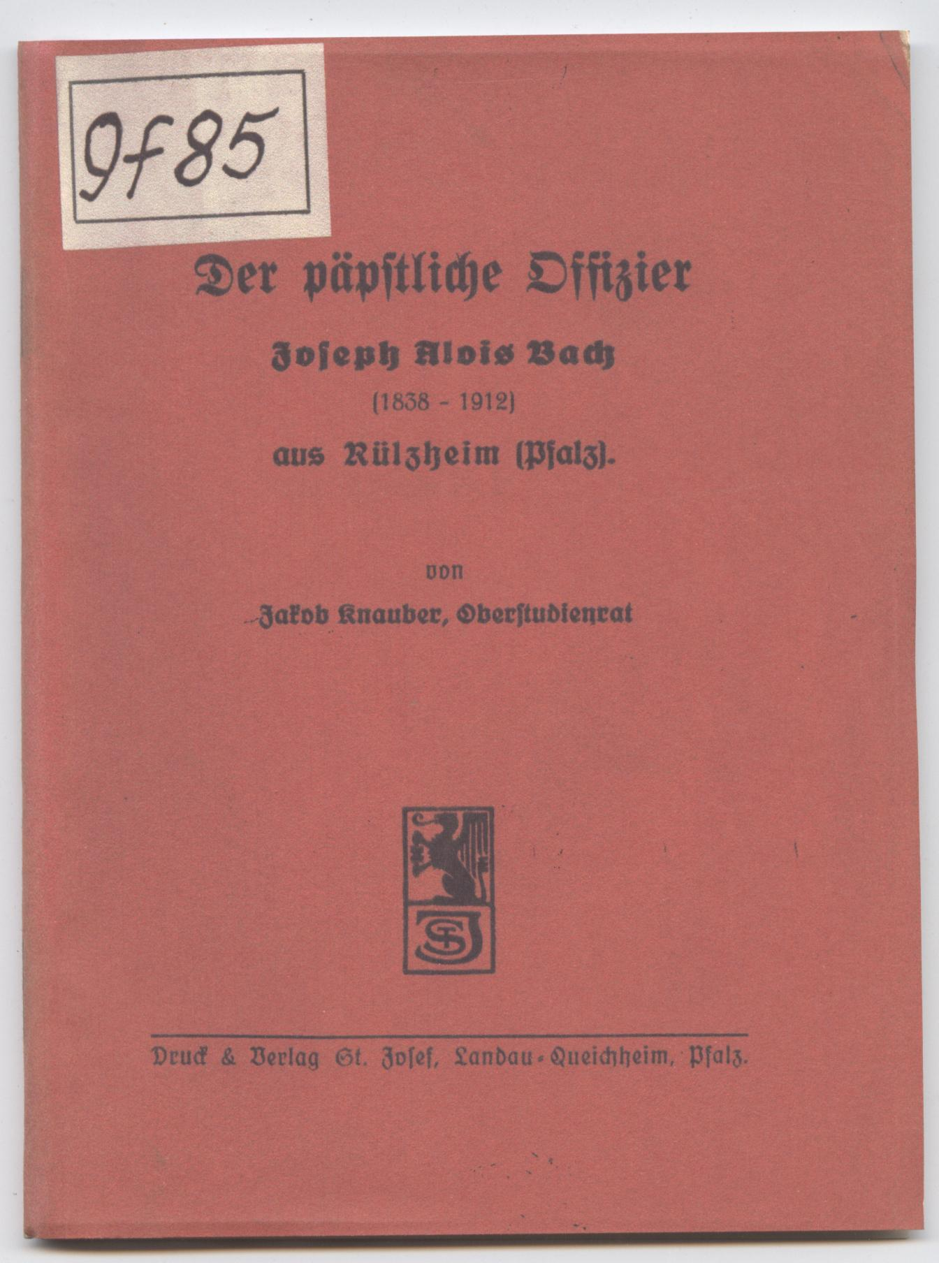 bookcover Joeph Alois bach from Jakob Knauber